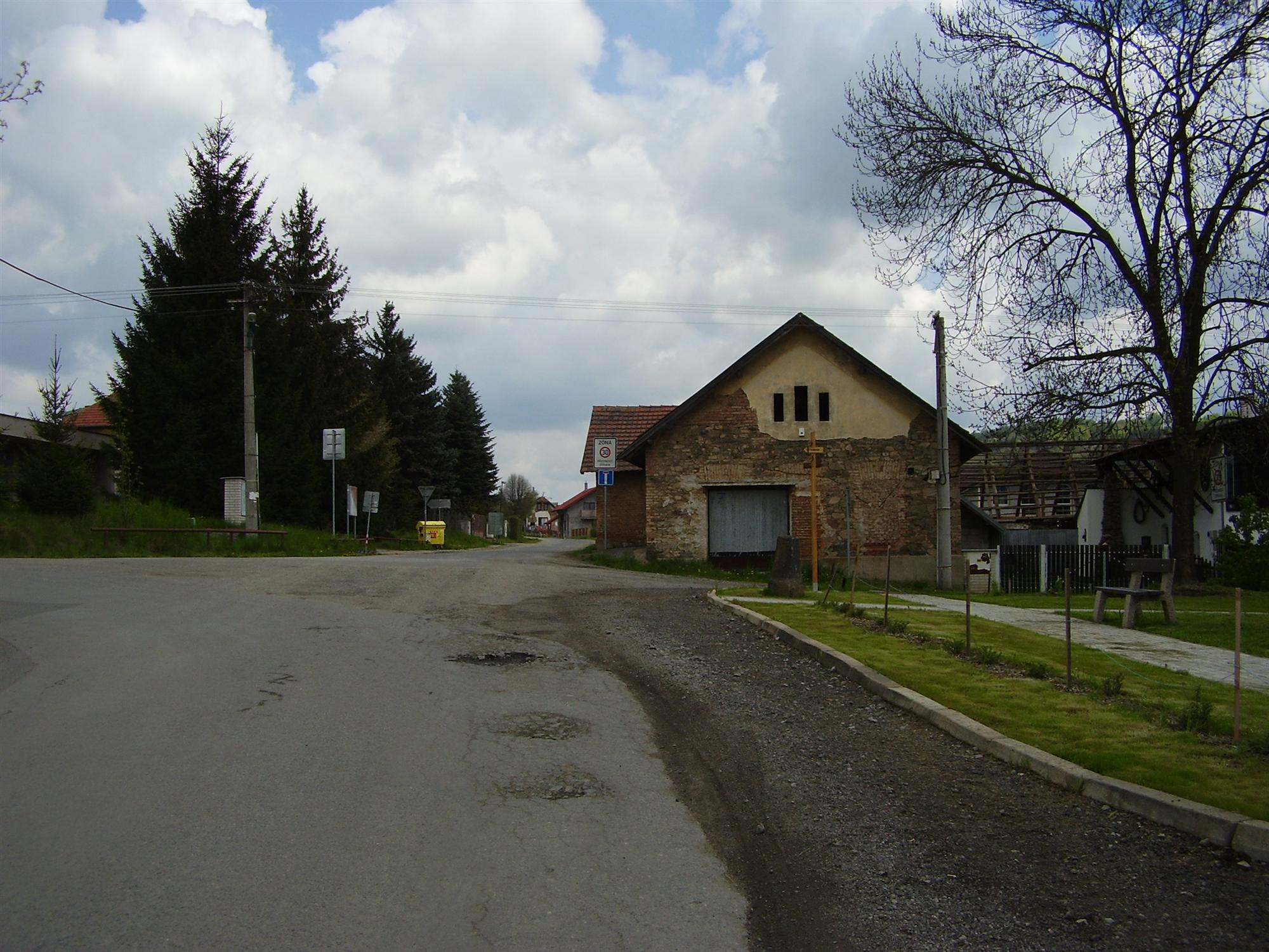 Square in Čtyřkoly